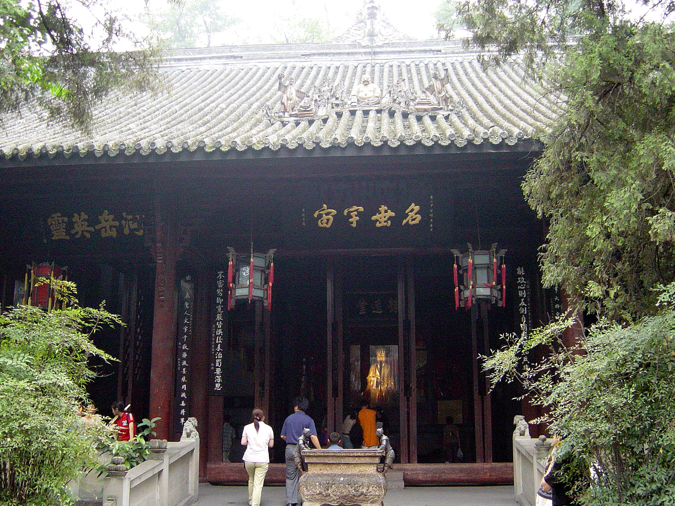 The Temple of the Marquis of Wu in Chengdu, a temple worshipping Zhuge Liang